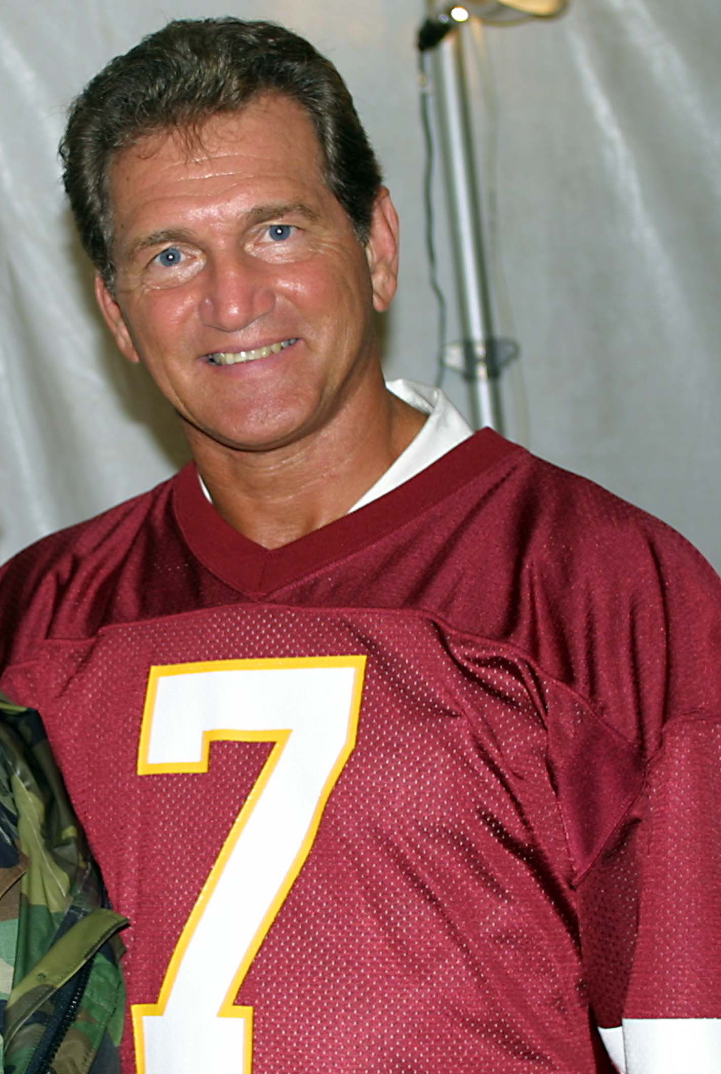 Former Redskins Quarterback Joe Theismann poses with Capt. Robert Kuster, actions officer for Operation Tribute to Freedom, backstage at the NFL Kickoff Live concert at the National Mall Sept. 4.